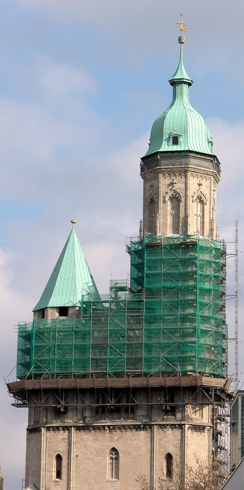 Braunschweig, Germany: St. Andrews: 2006/2007: World War II damage is being repaired.